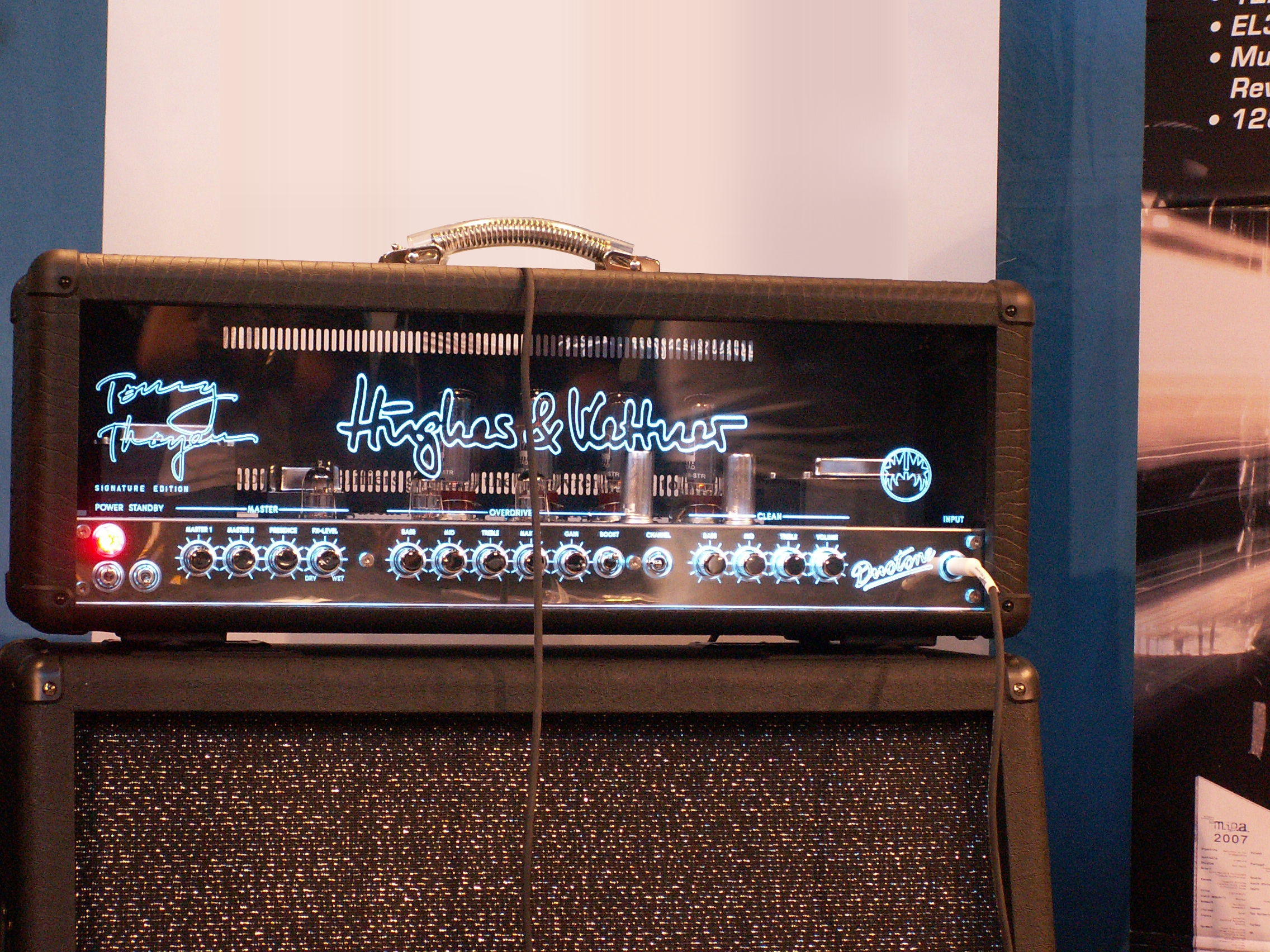 Looks really cool with its blue glow